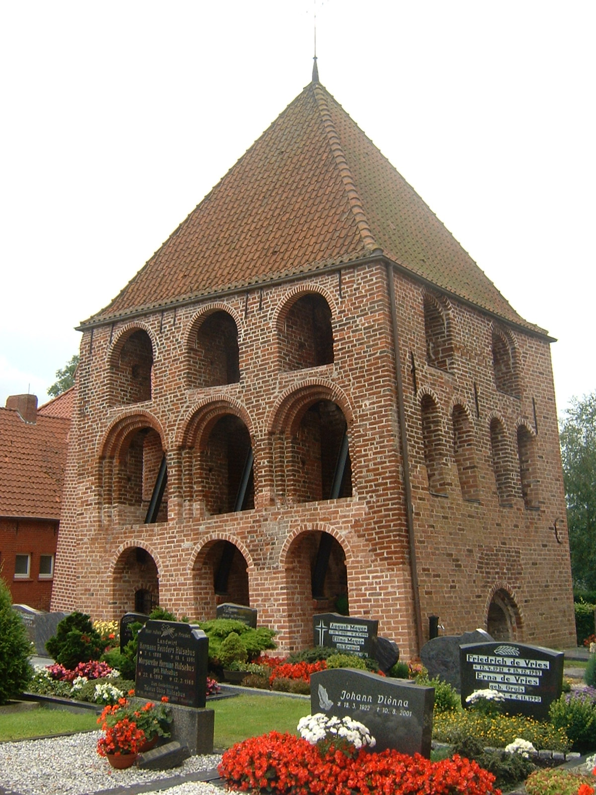 The Evangelical Reformed Midlum Church in Midlum (a locality of Jemgum), district of Leer, East Frisia, Lower Saxony, Germany, is owned and used by a Reformed congregation within the Evangelical Reformed Church – Synod of Reformed Churches in Bavaria and Northwestern Germany. Anki64